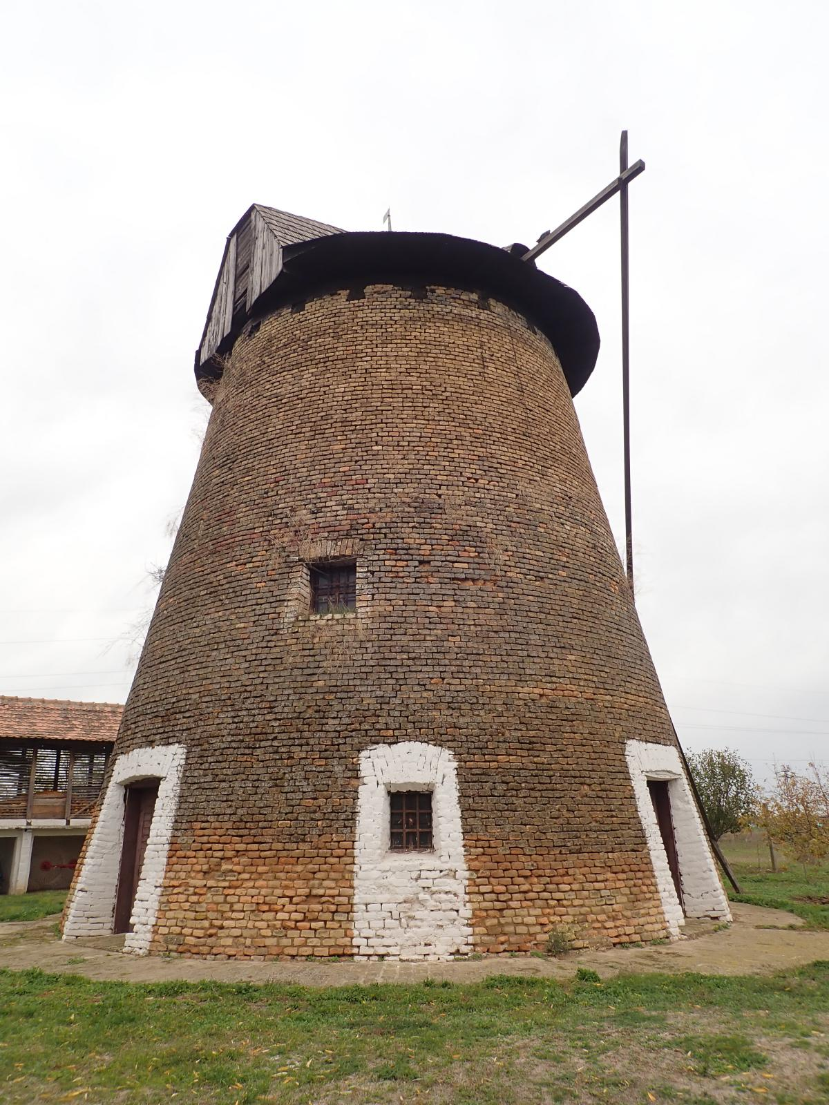 vetrenjaca curug